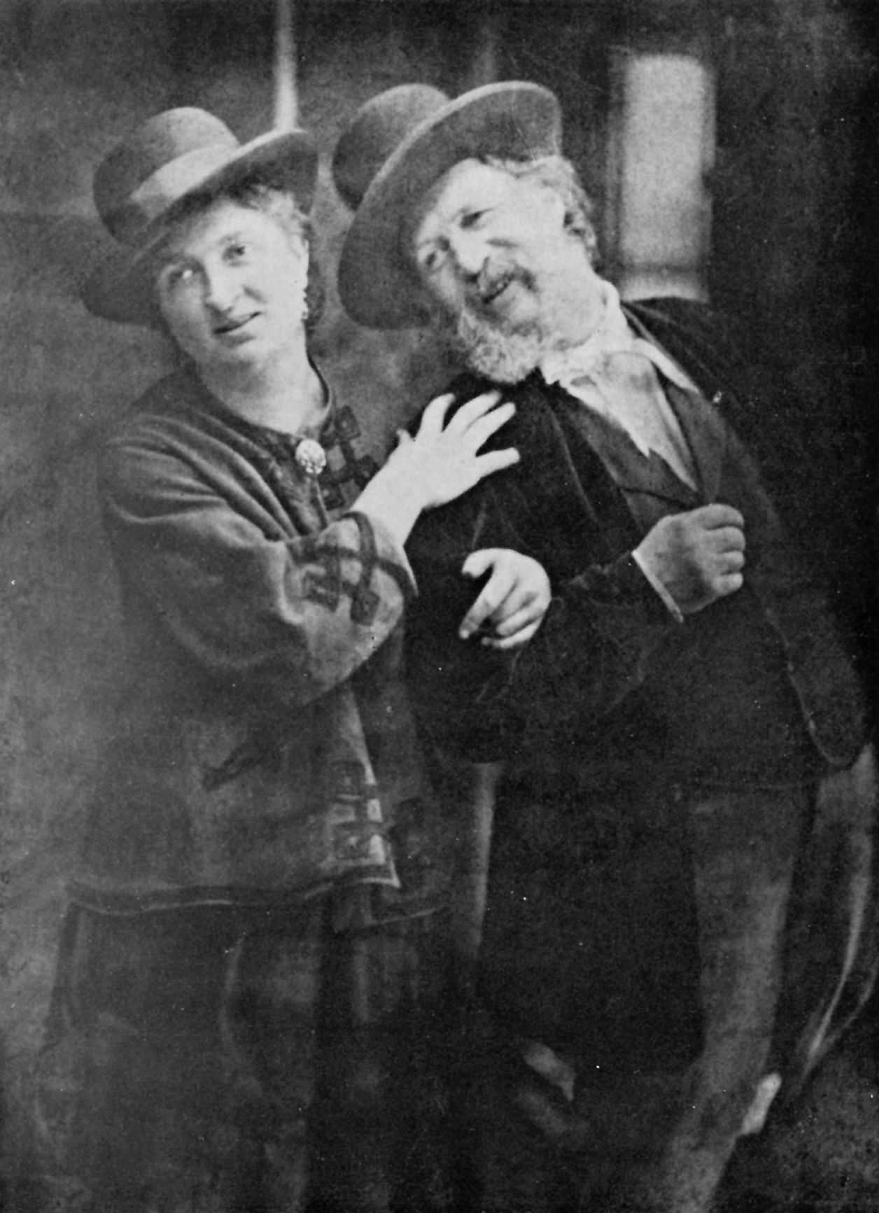 Happy Days, a portrait of Oscar Gustave Rejlander and his wife Mary Bull